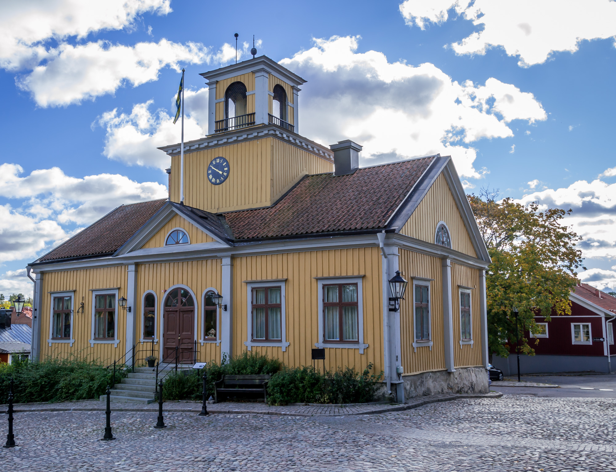 Town hall in Torshälla, Sweden